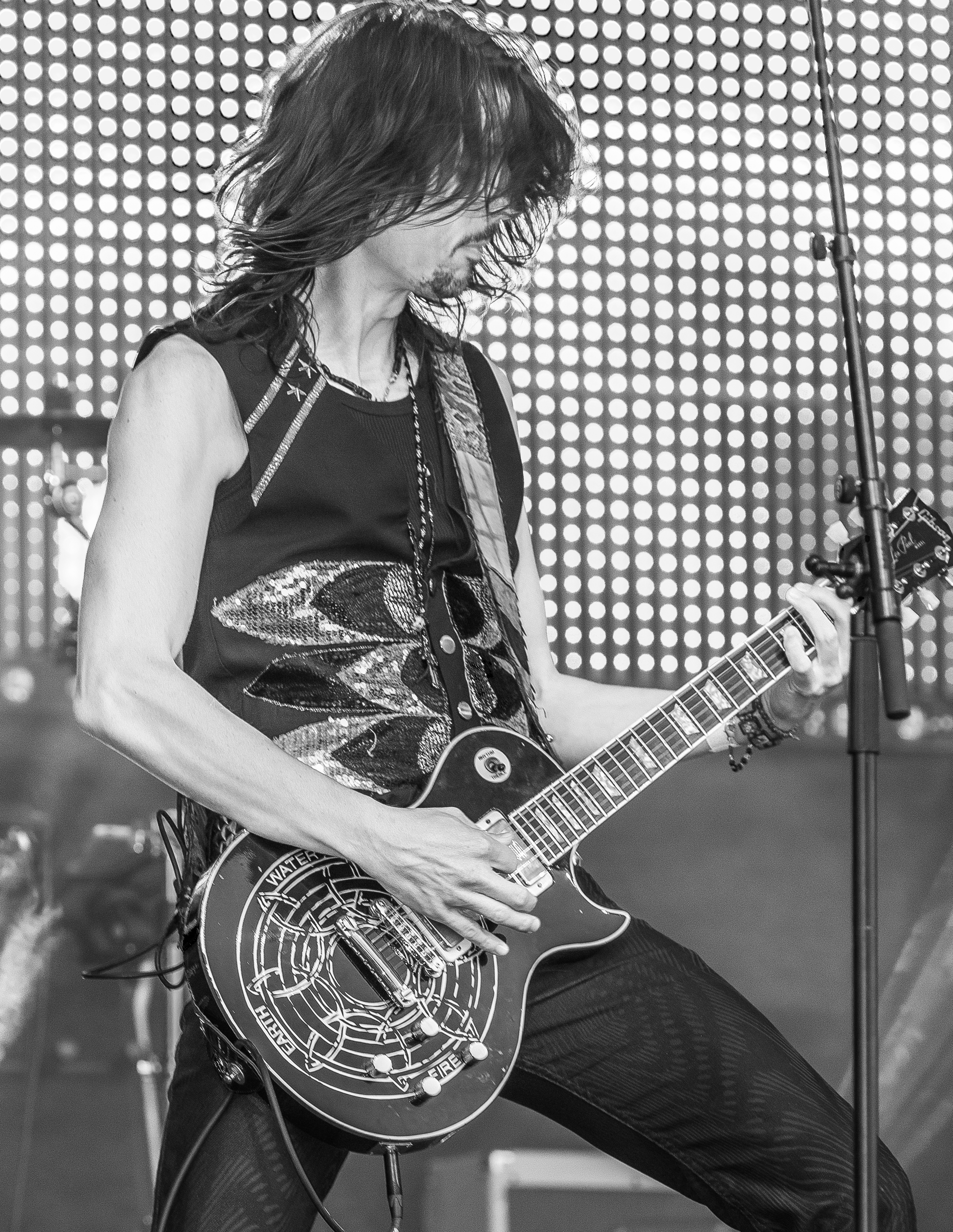 Jacob Samuel and The Poodles at Stockholm Pride 2015